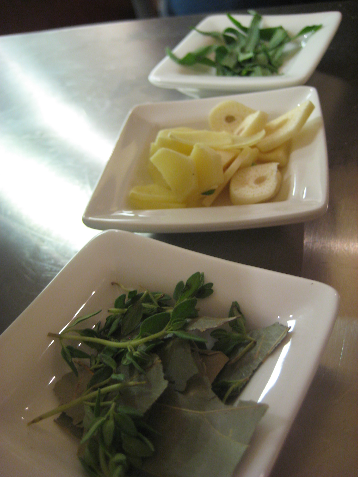 Ghanaian fruit pineapple and taro leaves (Ghanaian masterclass dish).